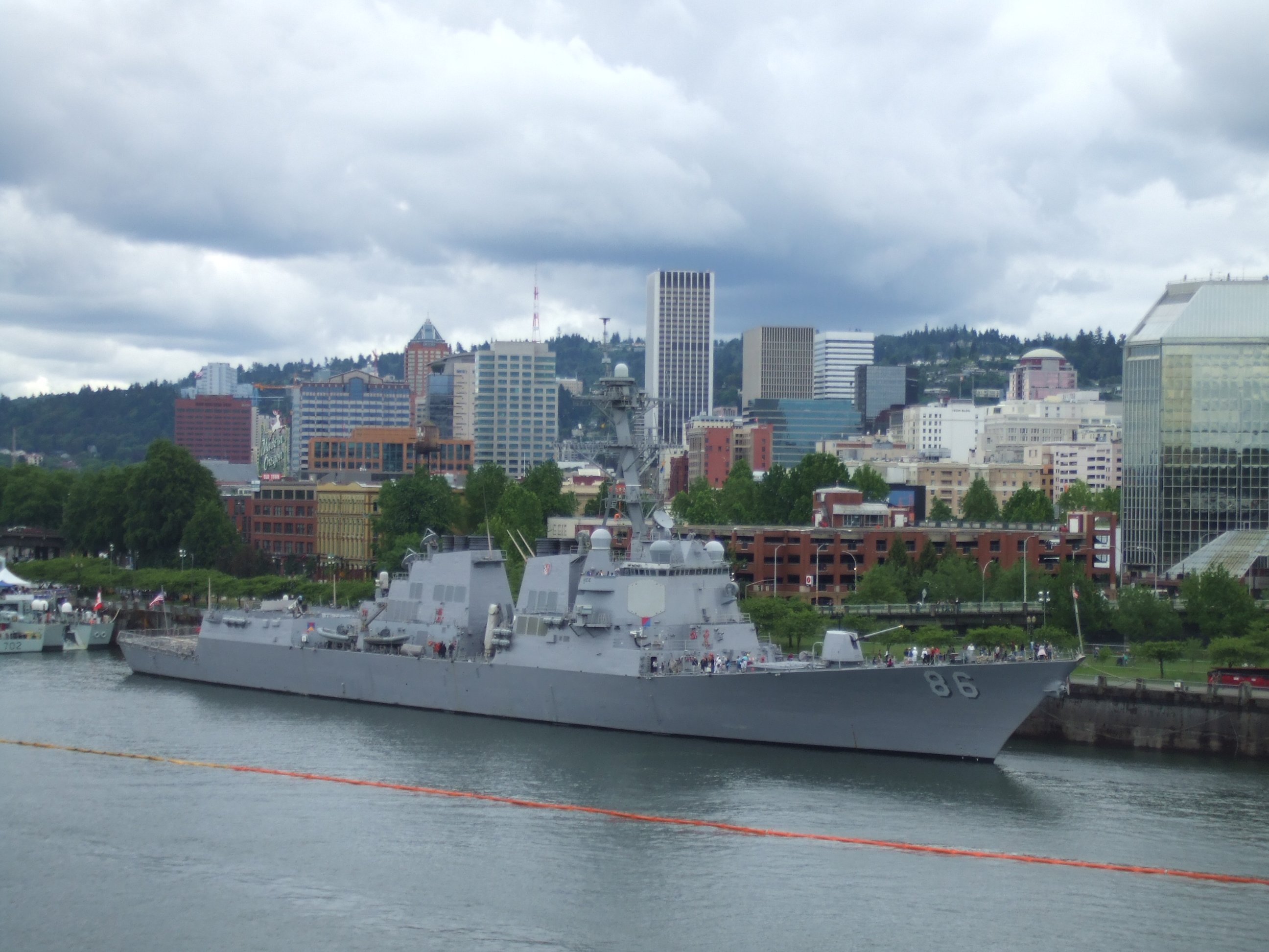 USS Shoup (DDG-86) in Portland for Fleet Week during the Rose Festival.